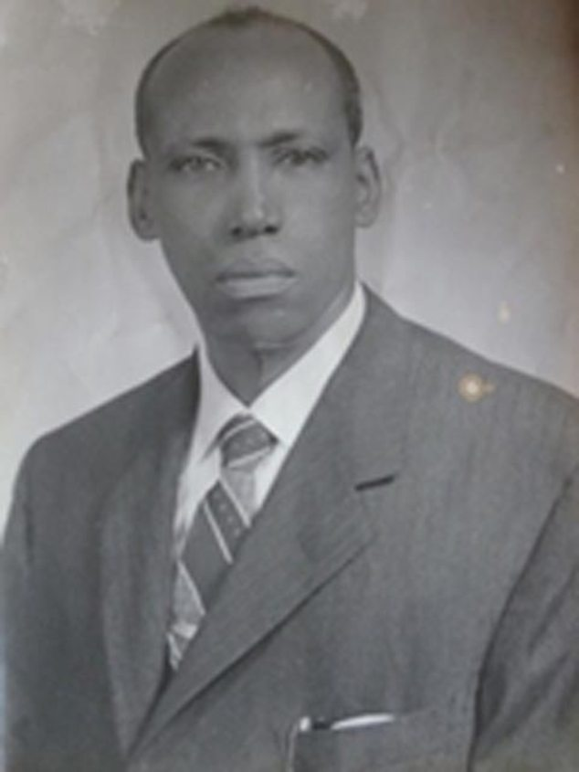 Sheikh Mukhtar Mohamed Hussein was Somalia's speaker of Parliament from 1966 to 1969.